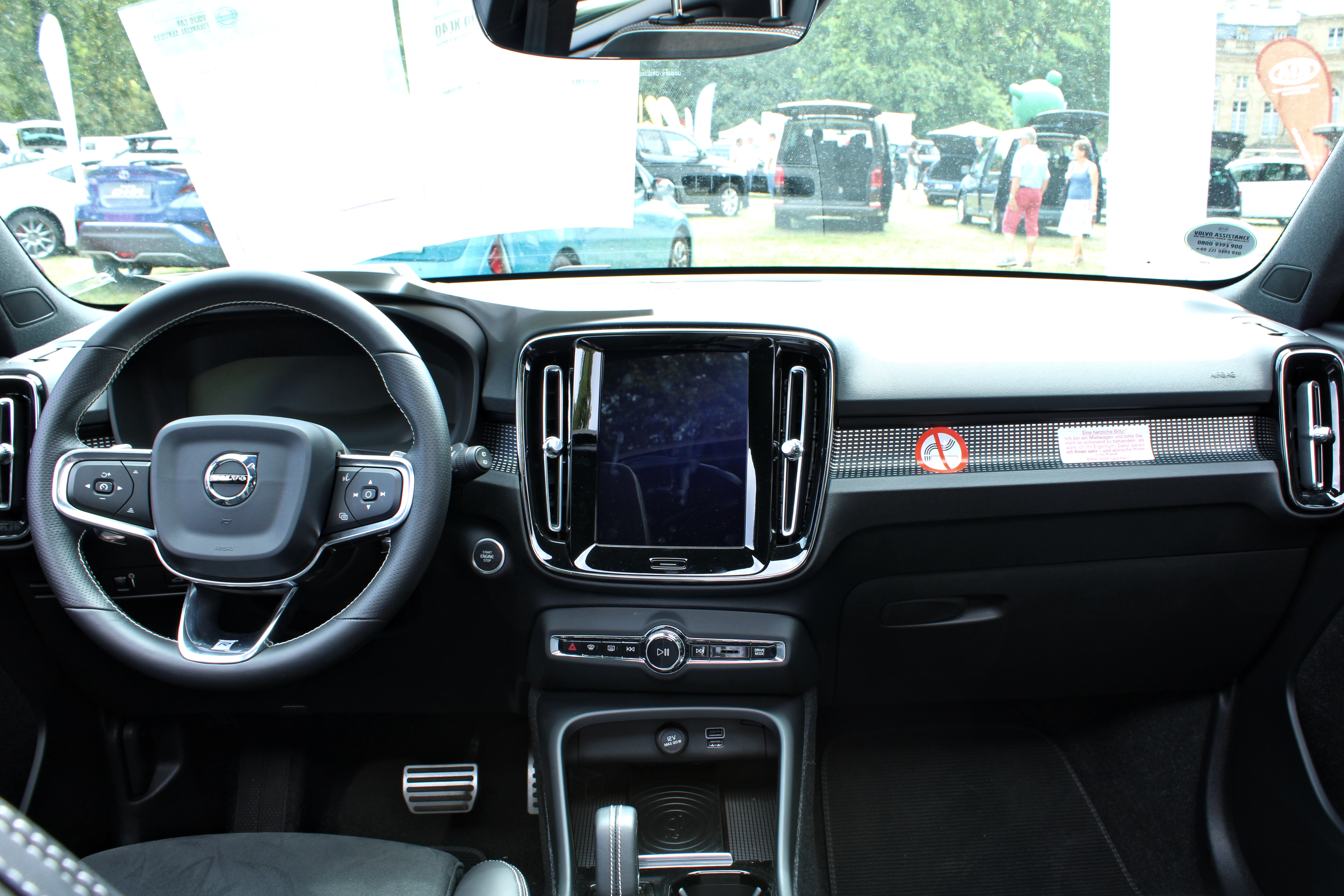 Volvo XC40 at schloss Monrepos 2018